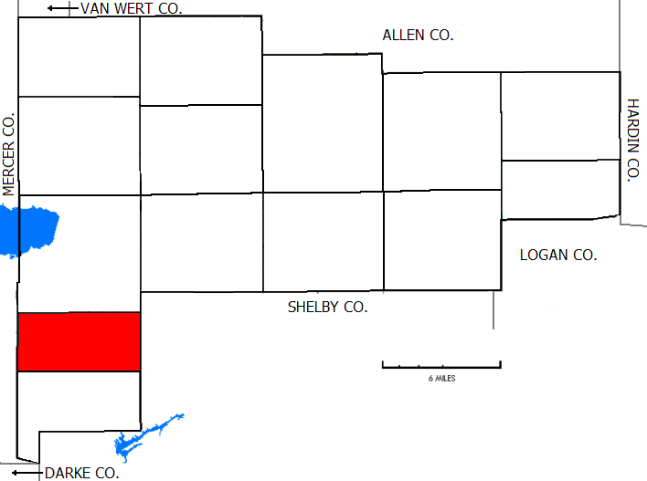 Taken from the Auglaize County map provided by Prinzwilhelm, who claimed that the original map was "self-created based on U.S. Government Census Maps and Date."